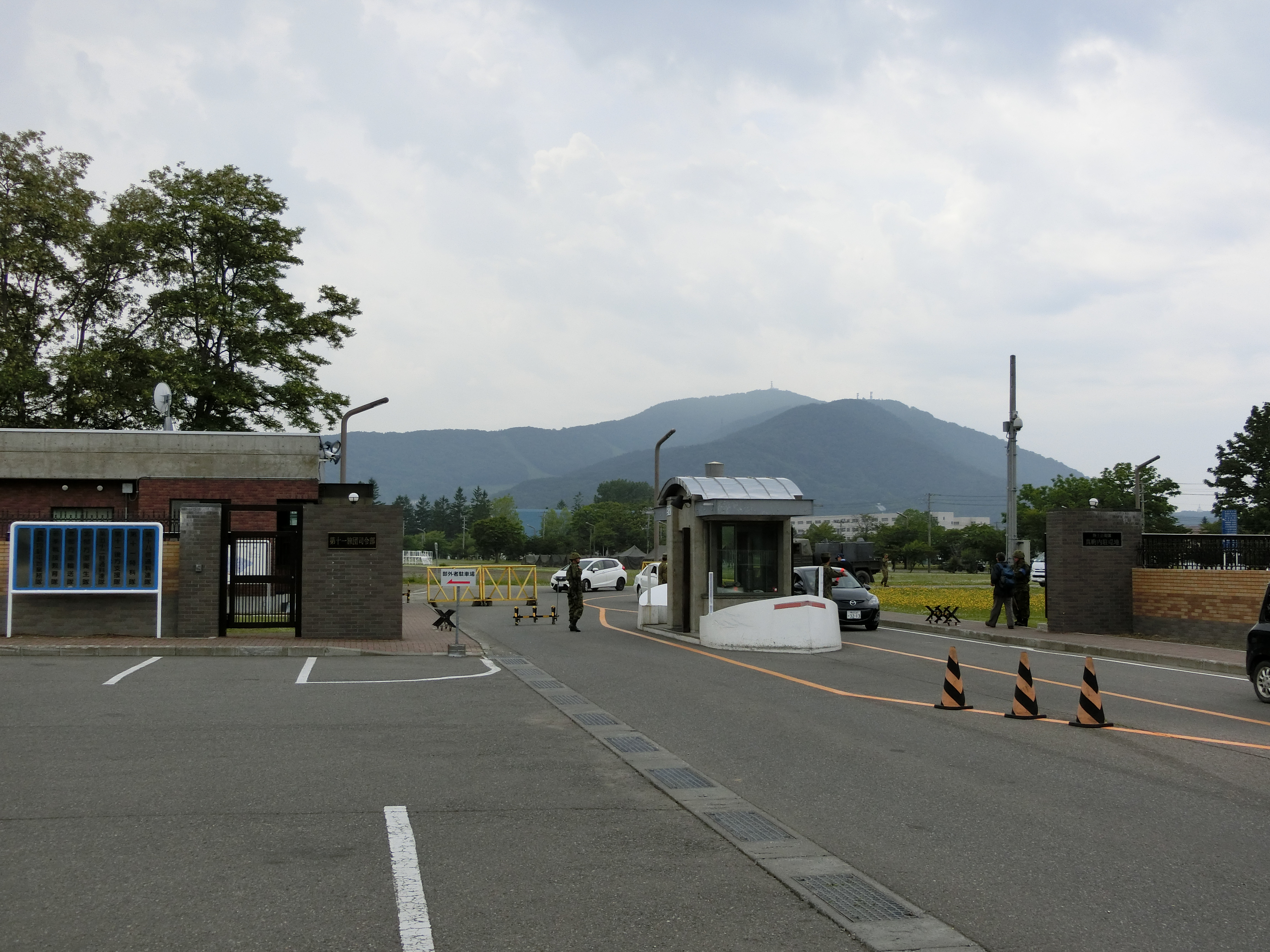 Camp Makomanai for Japan Ground Self-Defense Force located in Makomanai, South Ward, Sapporo, Hokkaido